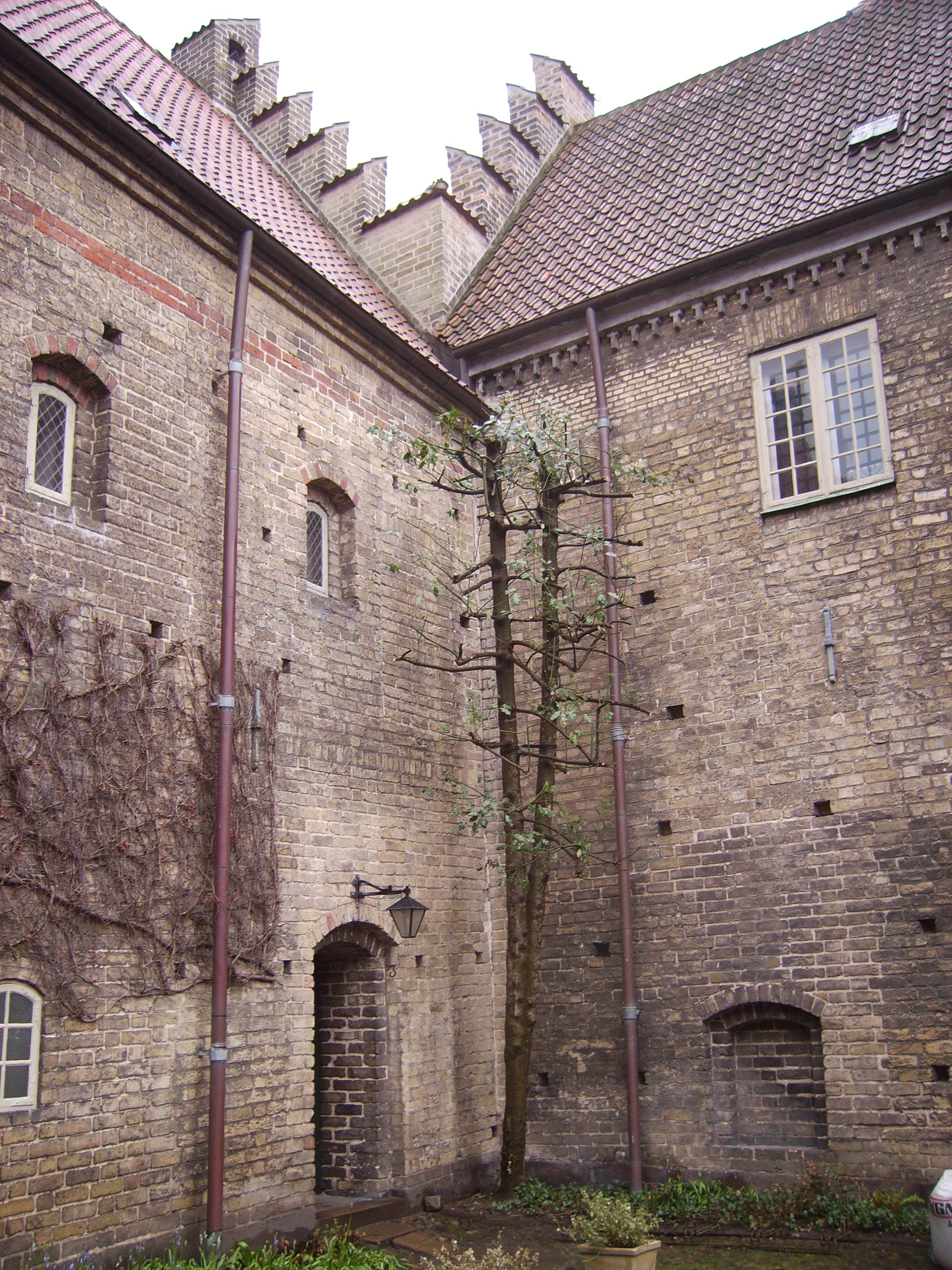 Aalborg monastery of Order of the Holy Ghost from 1451 to the Reformation in 1536. The buildings are from 1431.